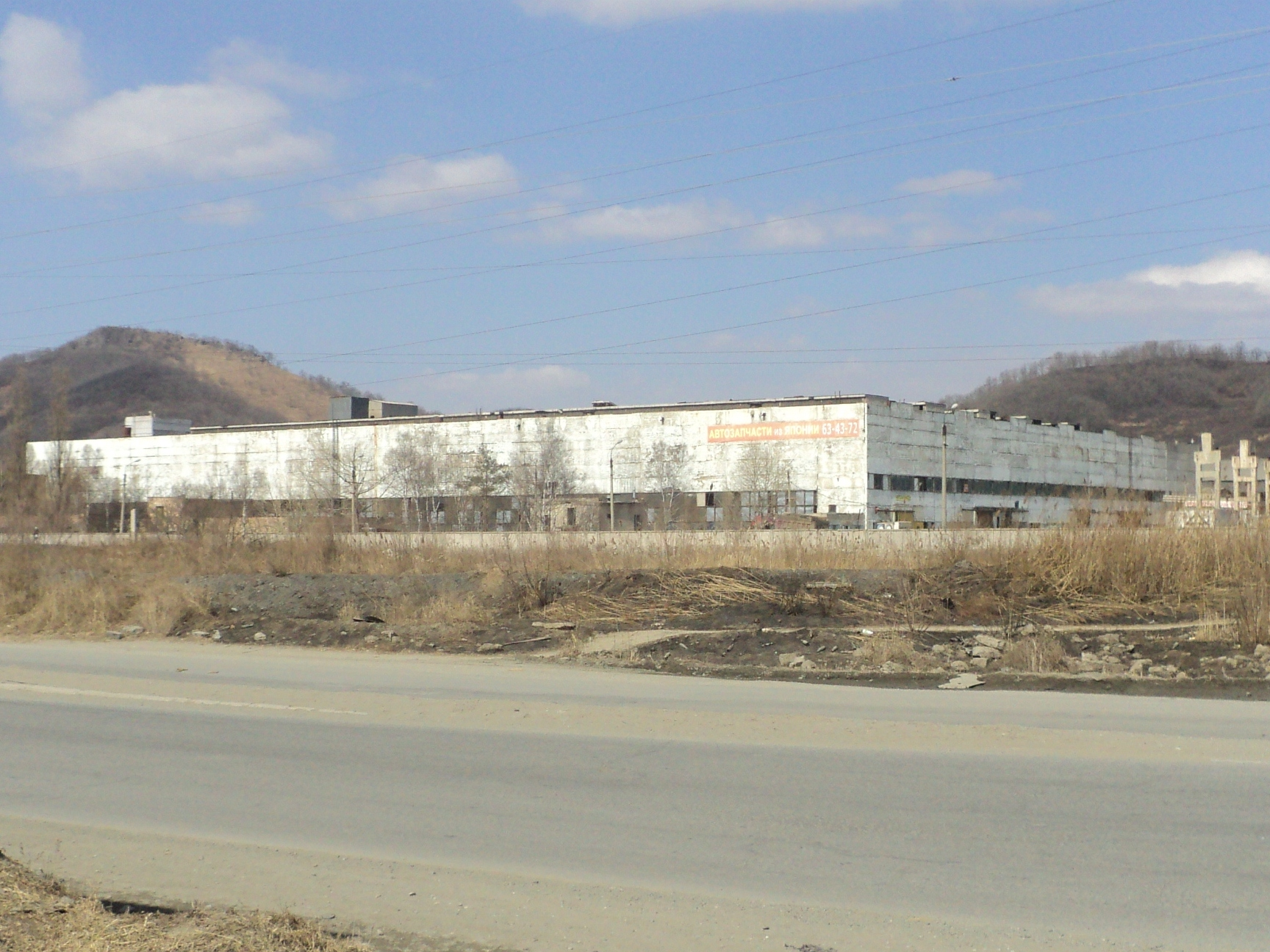 Industrial Zone in Nakhodka, Russia